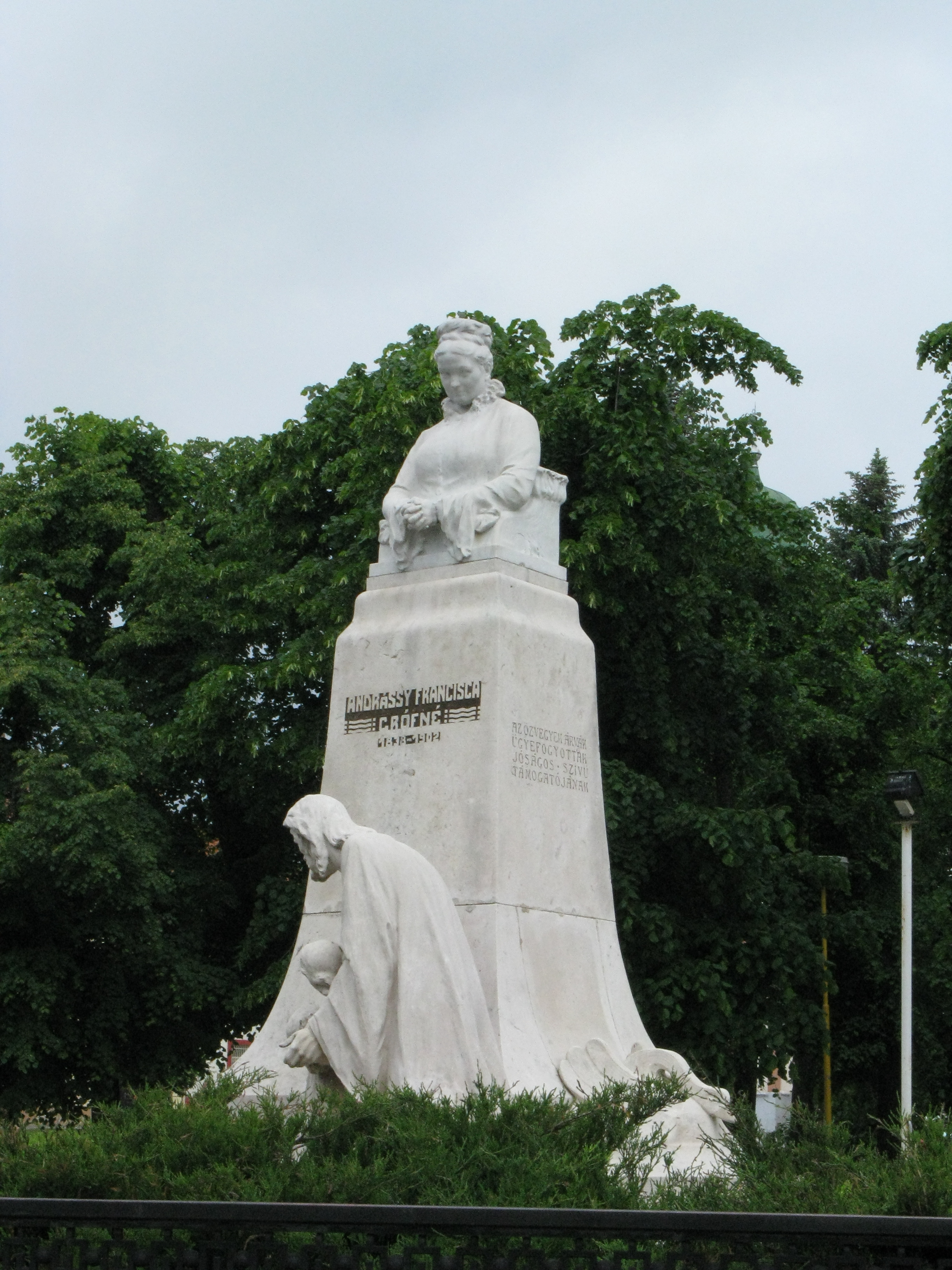 Františka Andrássy monument in Rožňava